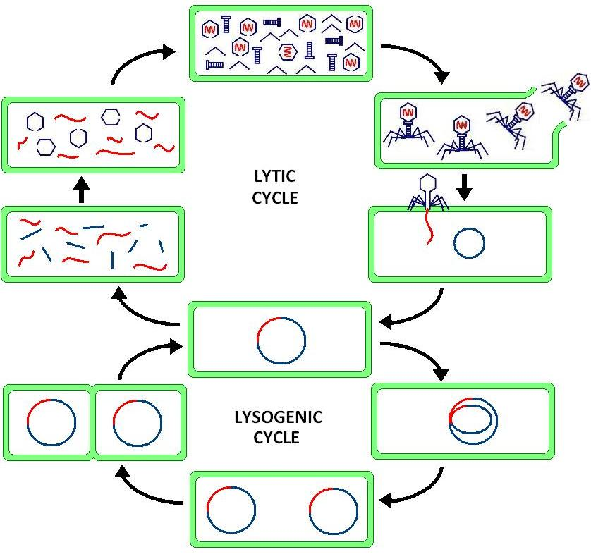 bacteriophage lysogenic and lytic cycle